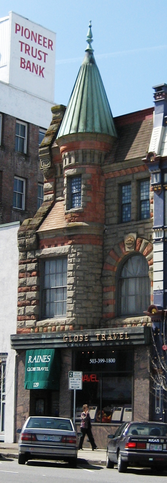 Globe Travel tower in Salem, Oregon, United States. Built 1880. Historic name: Capital National Bank Building.